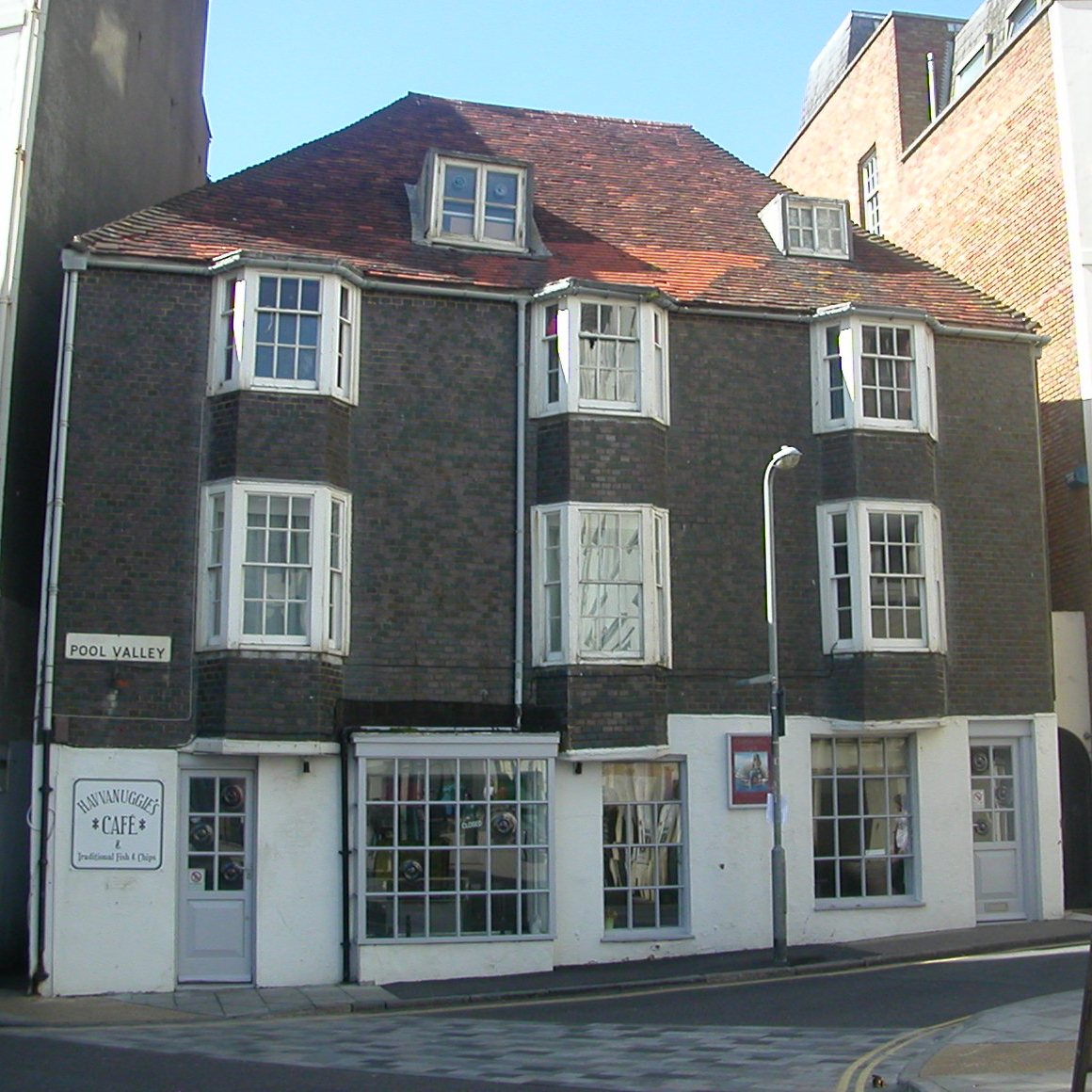 9 Pool Valley, Brighton, City of Brighton and Hove, England. Built in 1794 and used as a shop for most of its life. Listed at Grade II* by English Heritage (IoE Code 481045)